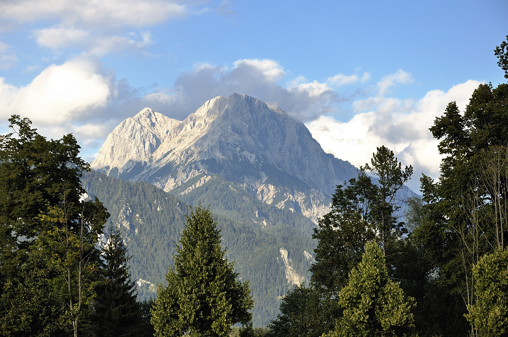 Großer Buchstein from Admont